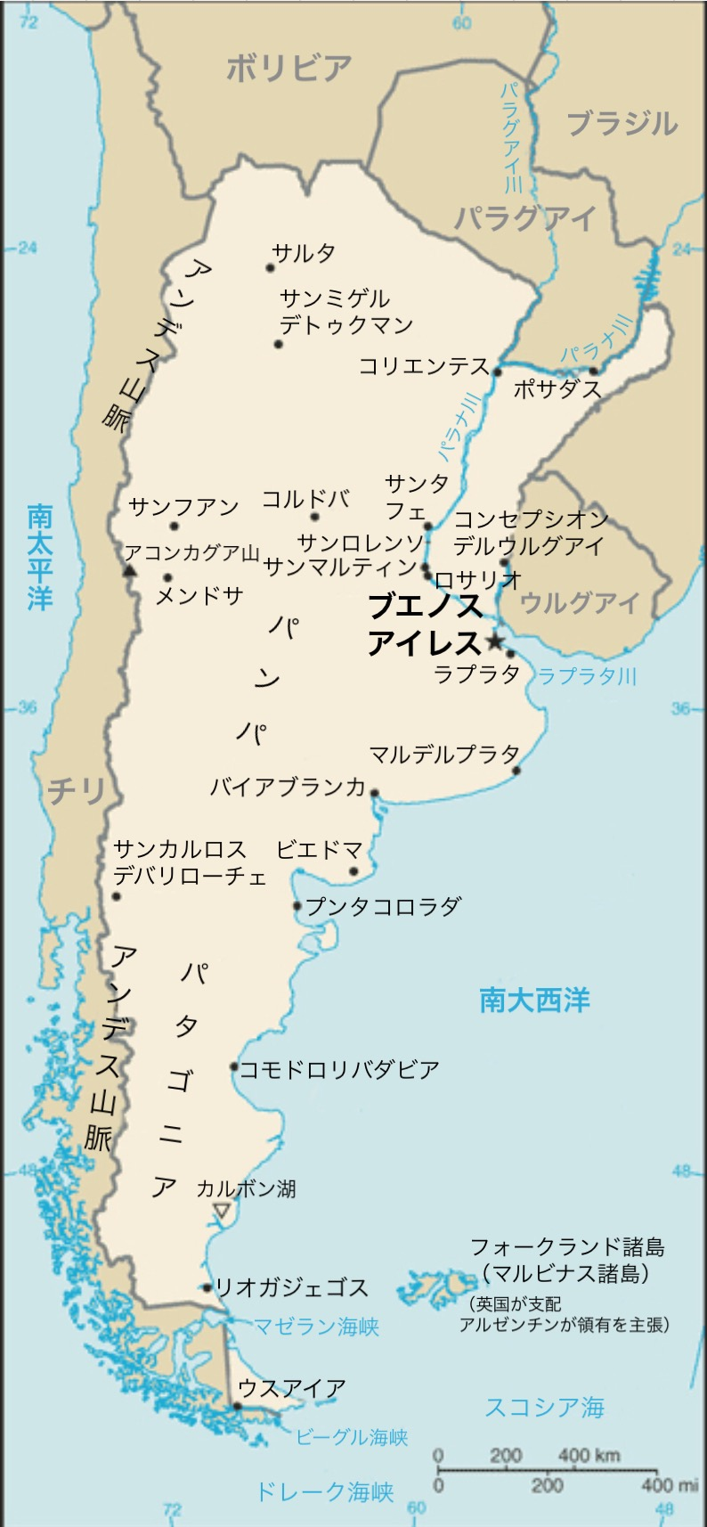 Map of Argentina in Japanese (from CIA World Factbook)